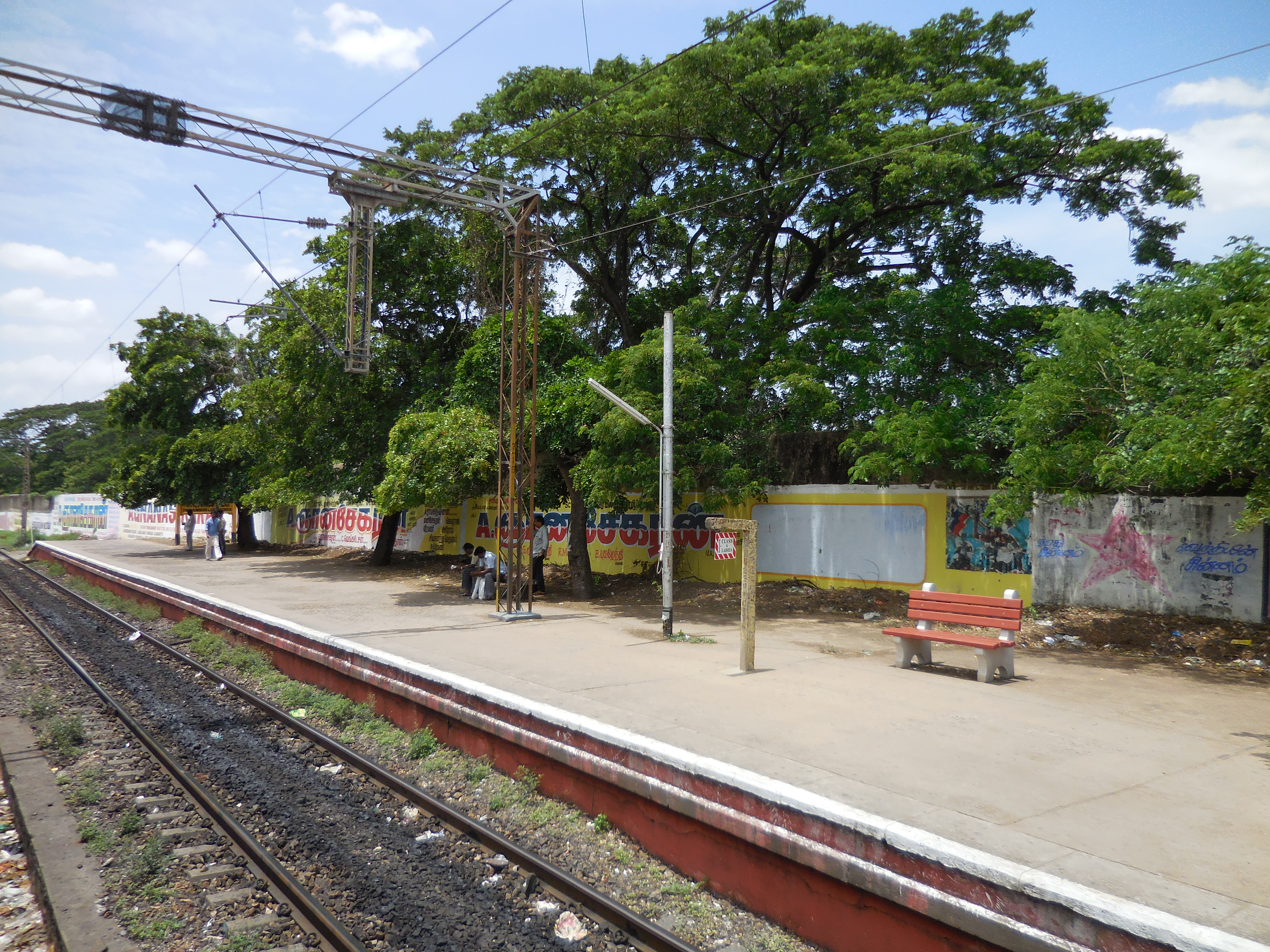 Perambur Loco Works railway station, Chennai, view towards east, taken on 15 July 2014 at noon.